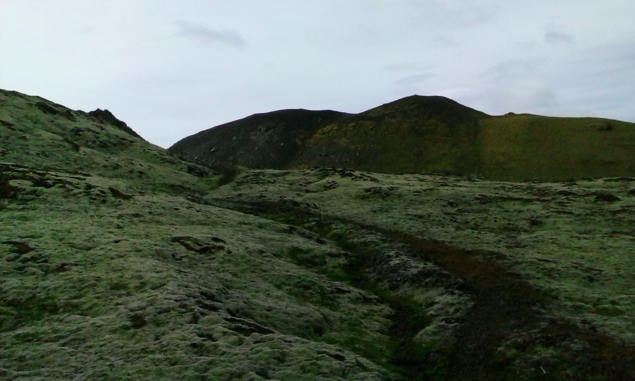 Eldborg crater, Bláfjöll, Southwest Iceland